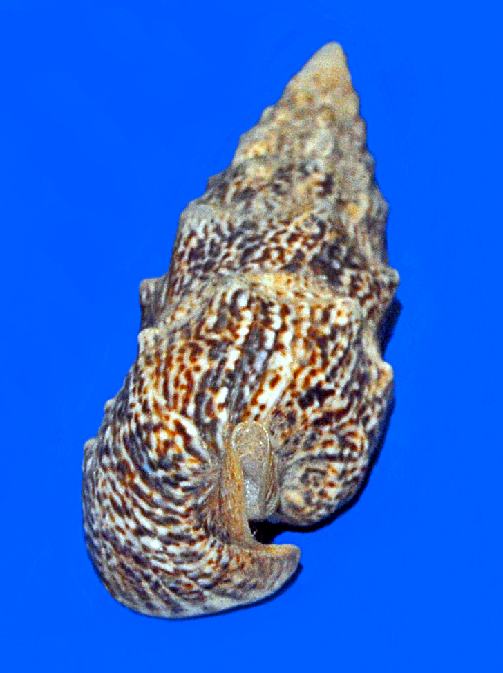 Shell of Pseudovertagus aluco from Australia, on display at the Museo Civico di Storia Naturale di Milano